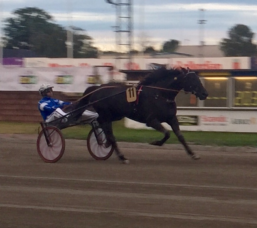 Calamara's Girl and driver Erik Adielsson at Örebrotravet in August, 2017.